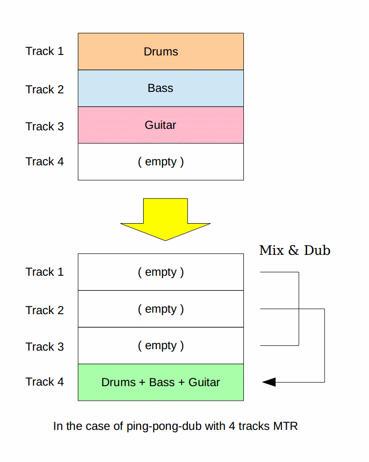 The image of "Ping-Pong Audio Dubbing".